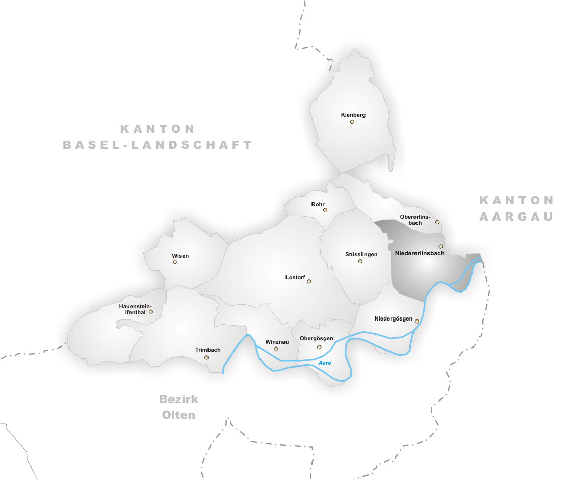 Municipality Niederlinsbach